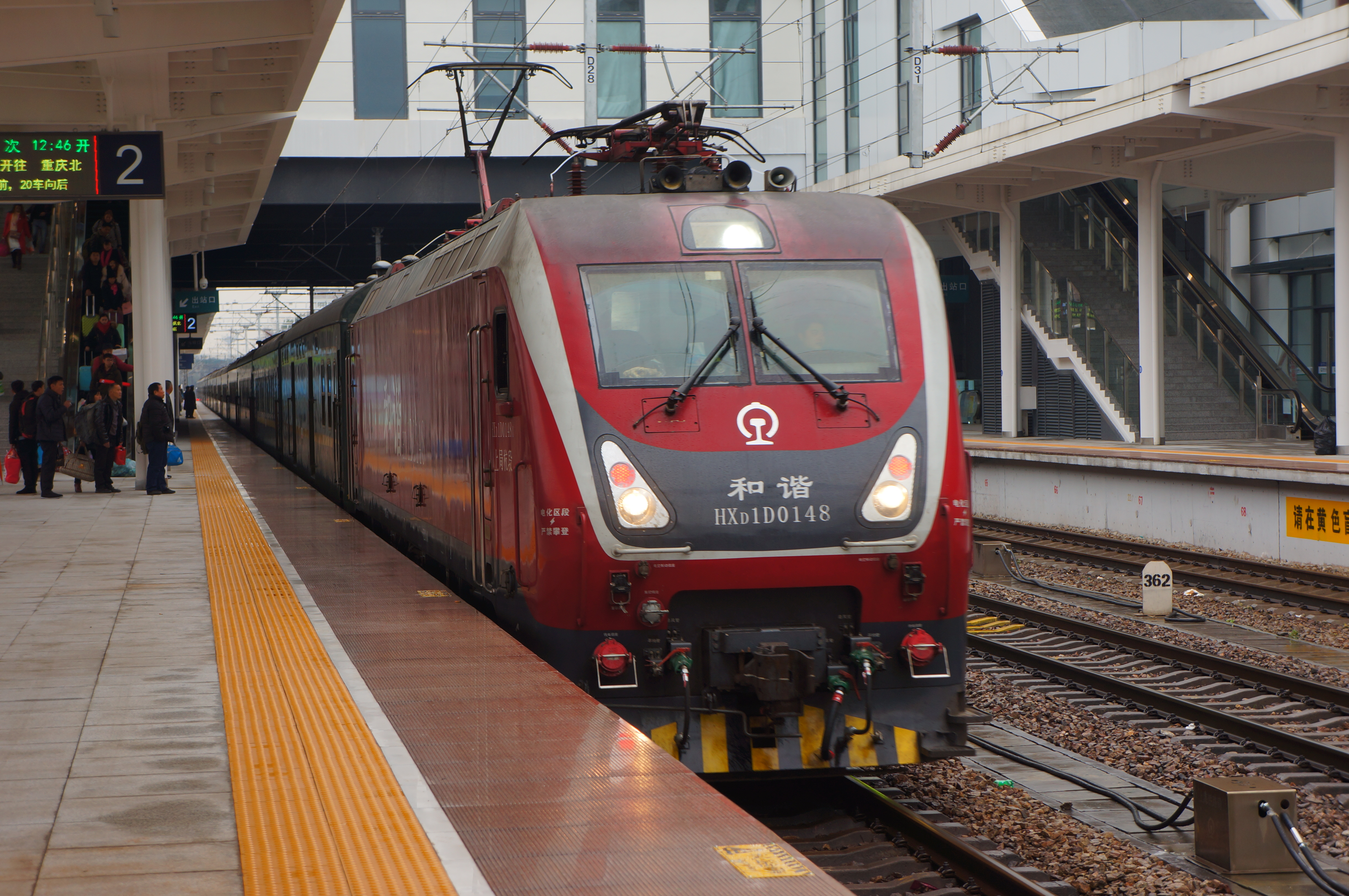 K1075 from Ningbo to Chongqingbei, I believe it is the first train that has a lot of passengers boarding at Jinhua Station.